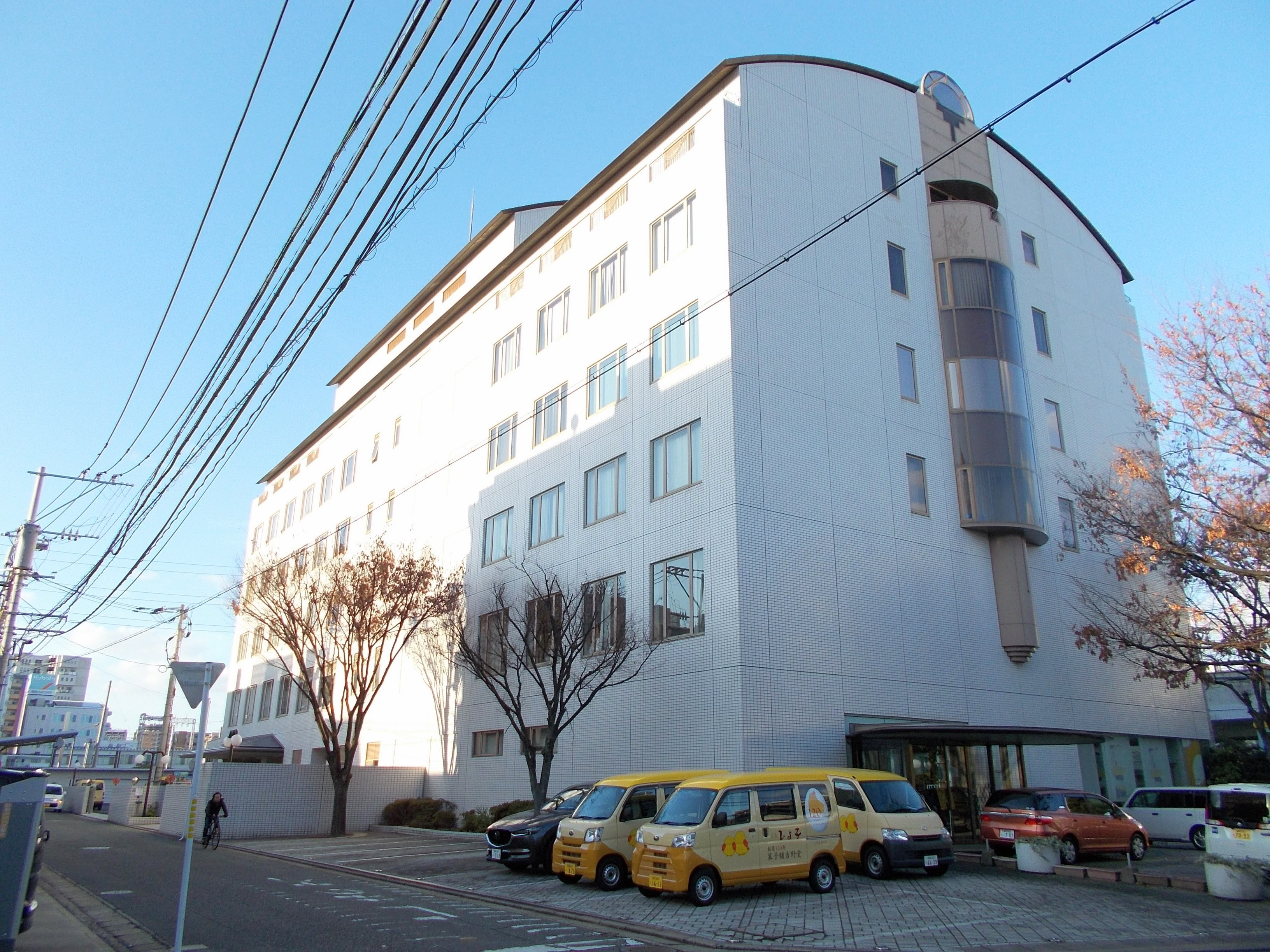 Hiyoko, a Japanese confectionery company based in Minami-ku, Fukuoka, Japan